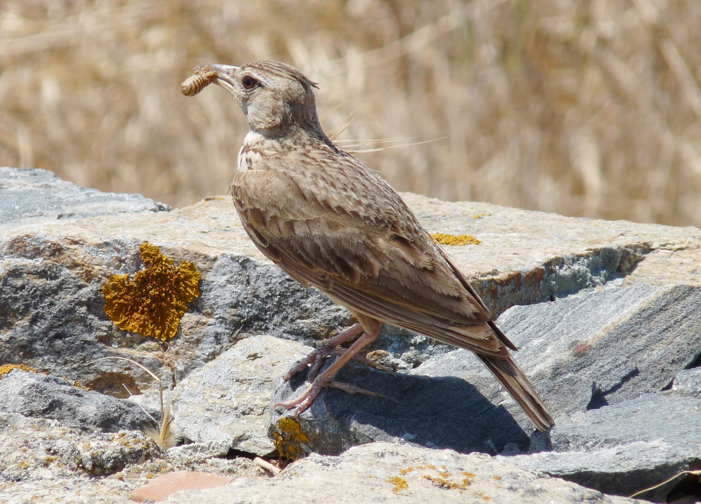 Crested Lark, ssp. meridionalis, Island of Delos, digital photo (Lumix)